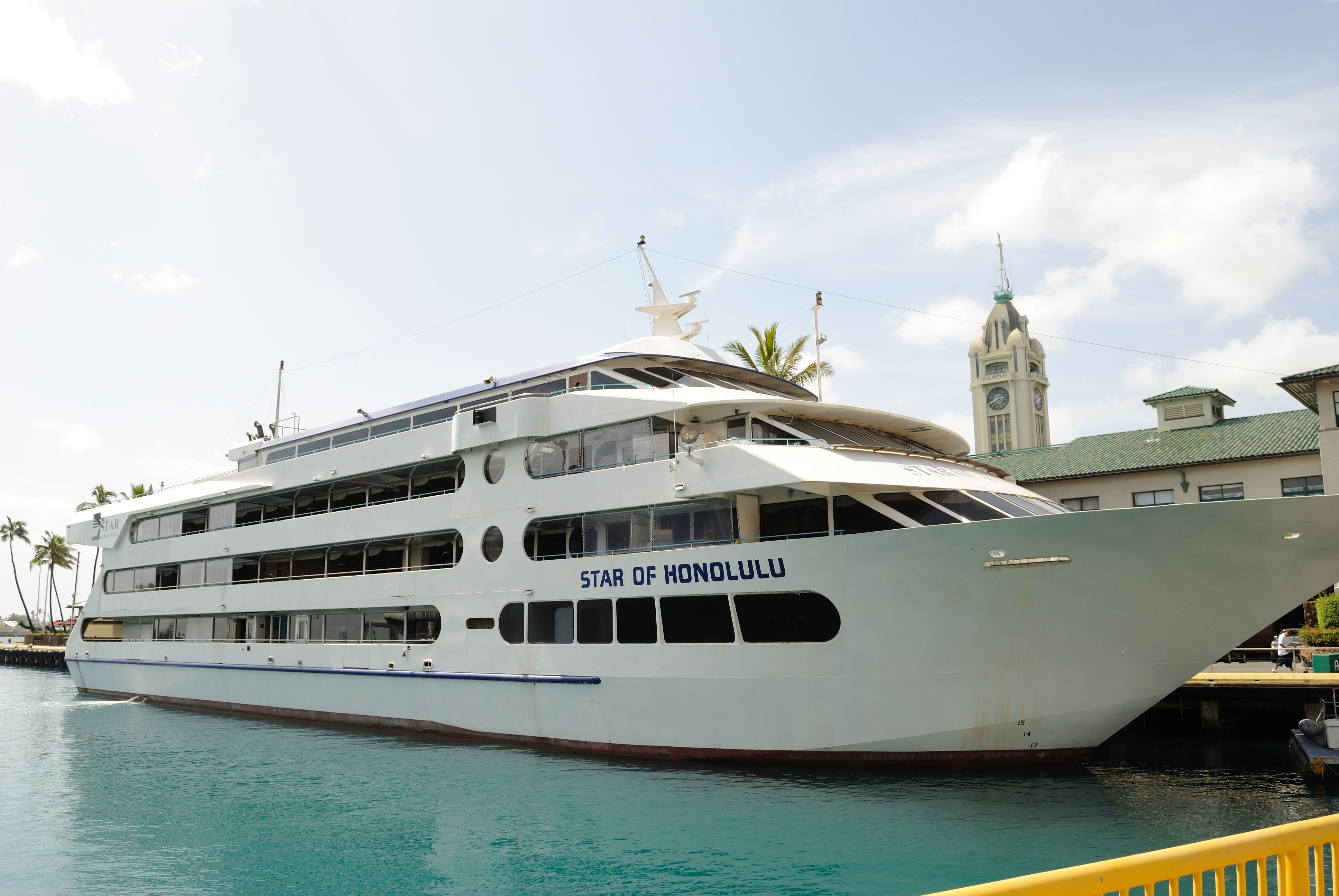 The Star of Honolulu on dock